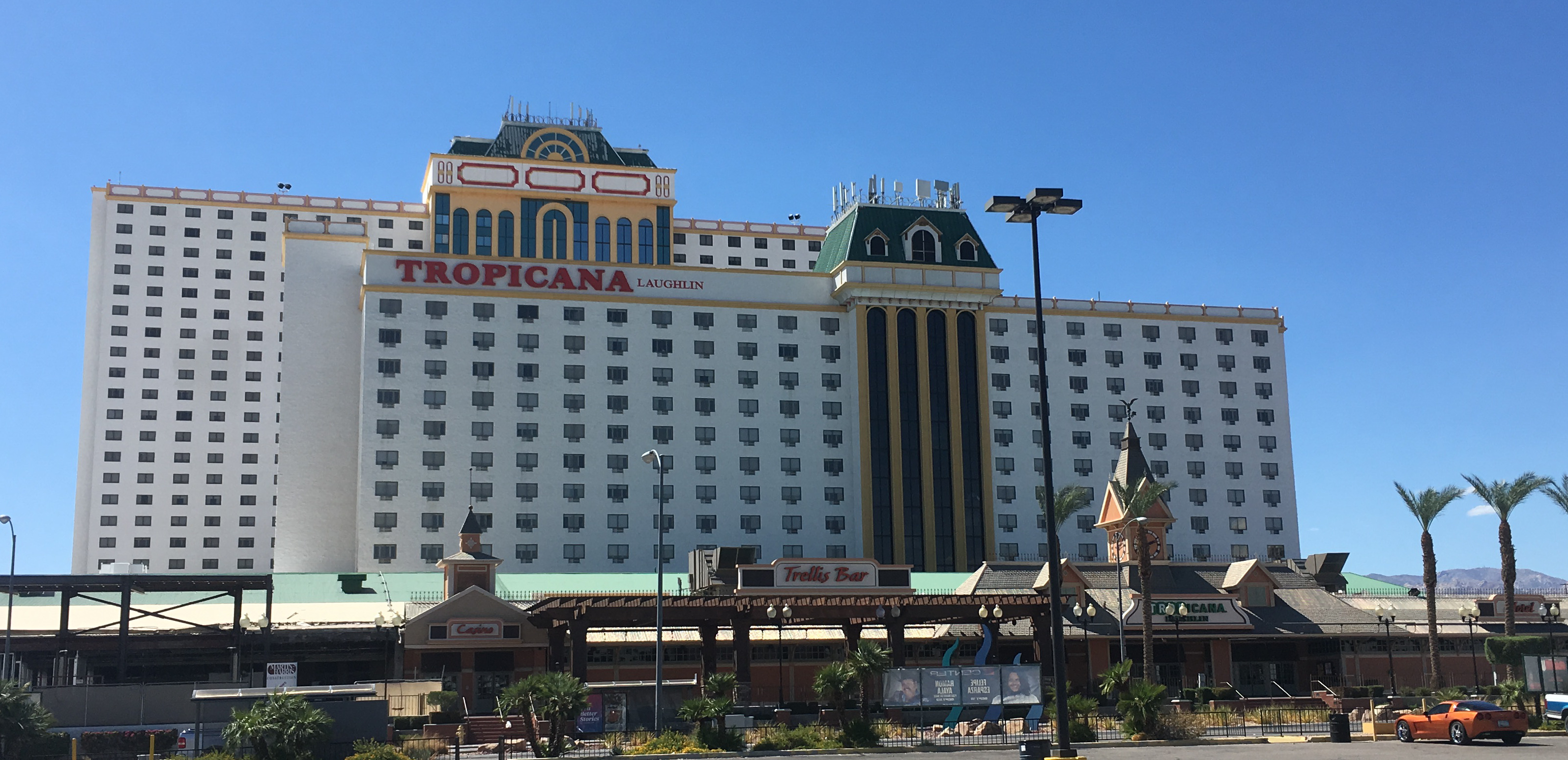 The Tropicana Lughlin casino and hotel